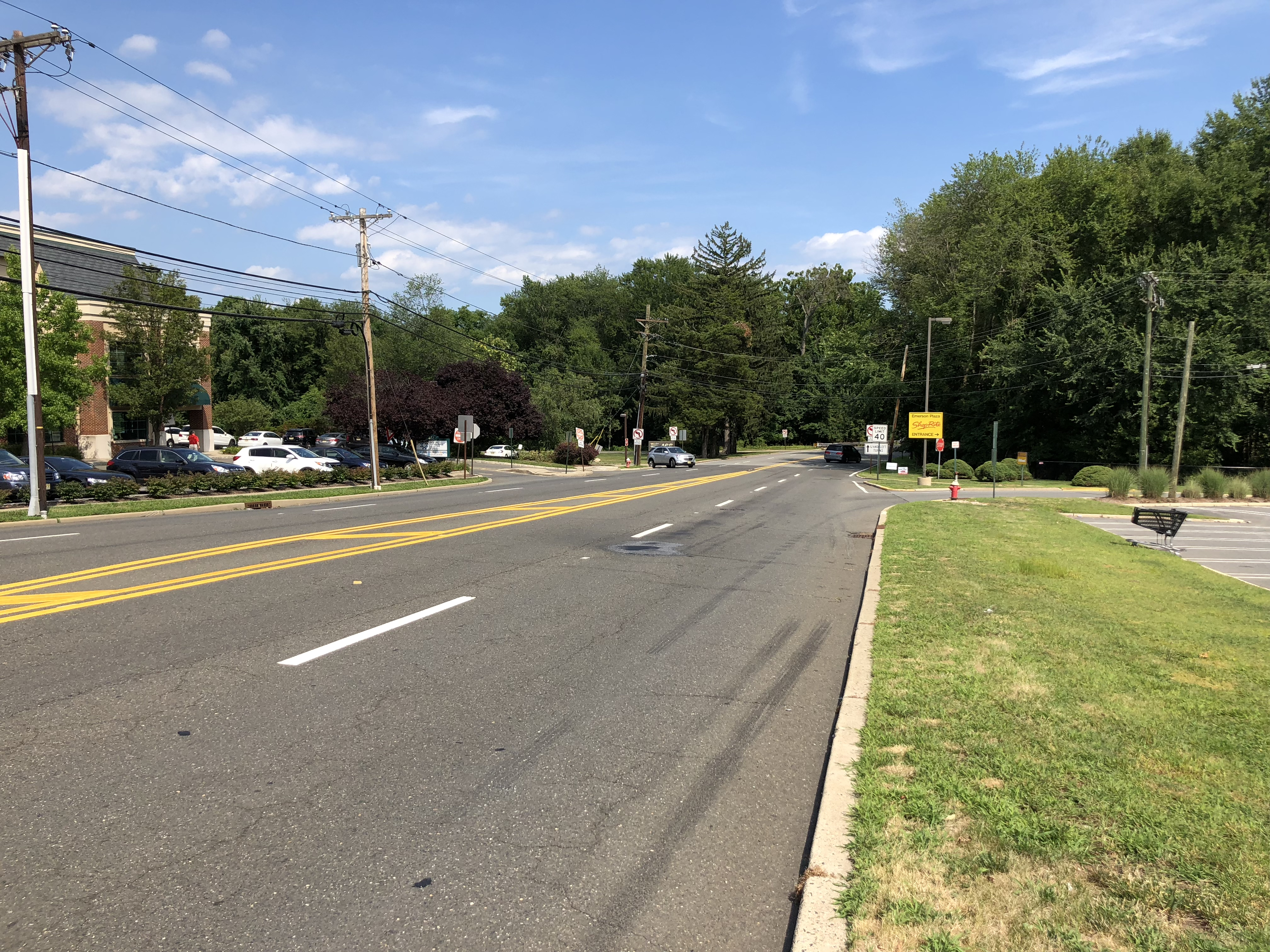 View east along Bergen County Route 502 (Old Hook Road) just east of Main Street in Emerson, Bergen County, New Jersey